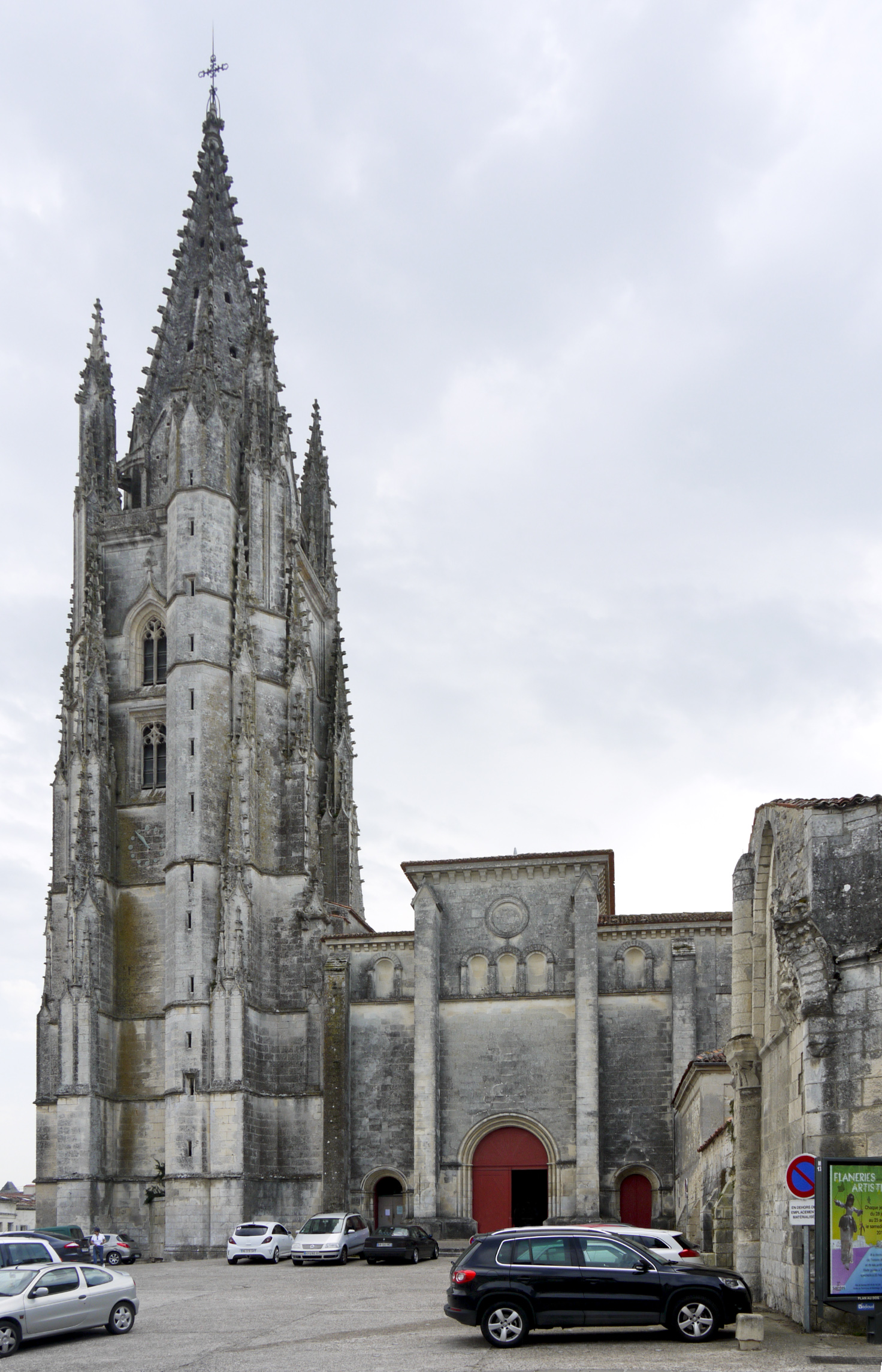 Basilique Saint-Eutrope de Saintes, Saintes, France. Church tower